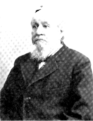 William Adam Piper, US Representative from California